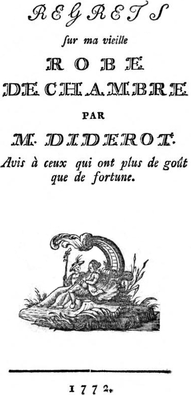 Title page of Denis Diderot's Regrets for my old dressing-gown, (1772).